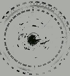 The PPI radar display as originated by NRL. The PPI is now user worldwide in detection, navigation, air traffic control, and object identification radar systems.